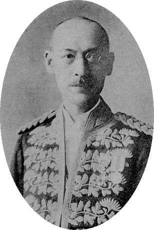 Tsunetarō Nannichi, former director of the Toyama Higher School.